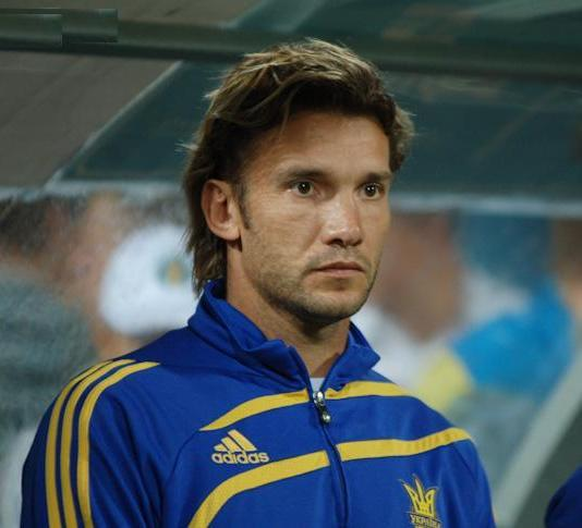 Andriy Shevchenko in Ukraine national football team